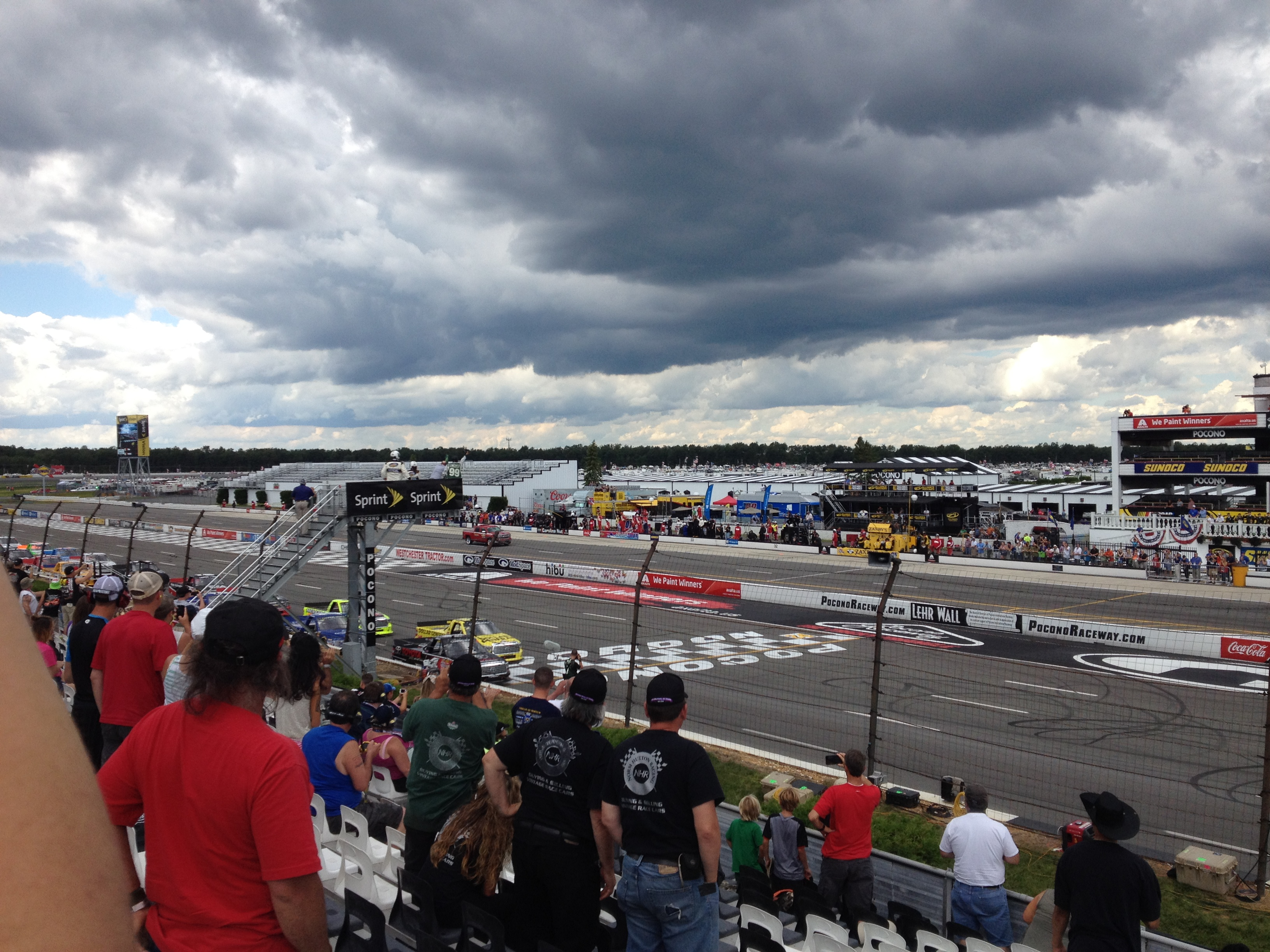 The 2015 Pocono Mountains 150 at Pocono Raceway viewed from the start/finish line, with Erik Jones (#4) and Kyle Busch (#51) on the front row.